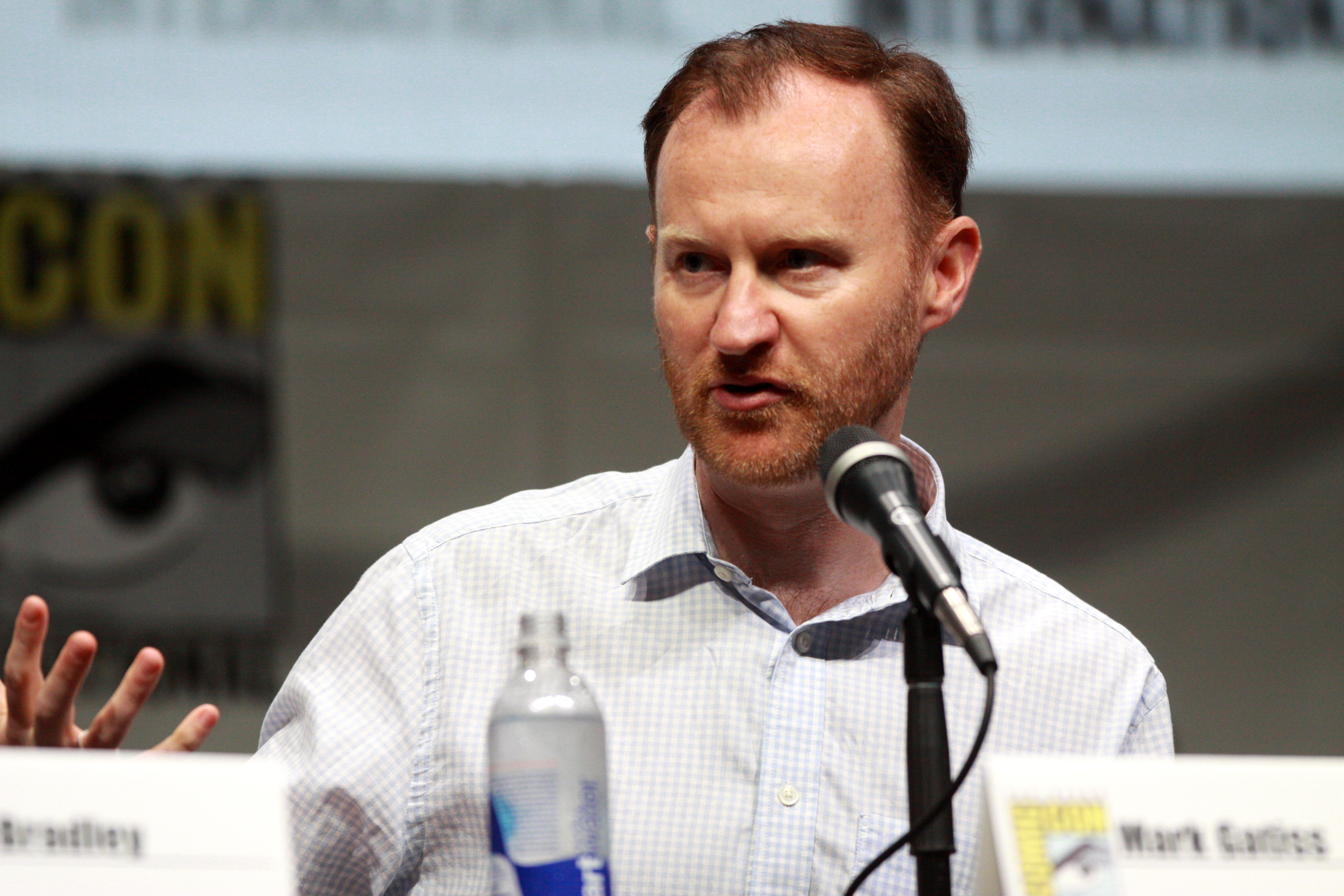 Mark Gatiss speaking at the 2013 San Diego Comic Con International, for "Doctor Who", at the San Diego Convention Center in San Diego, California.